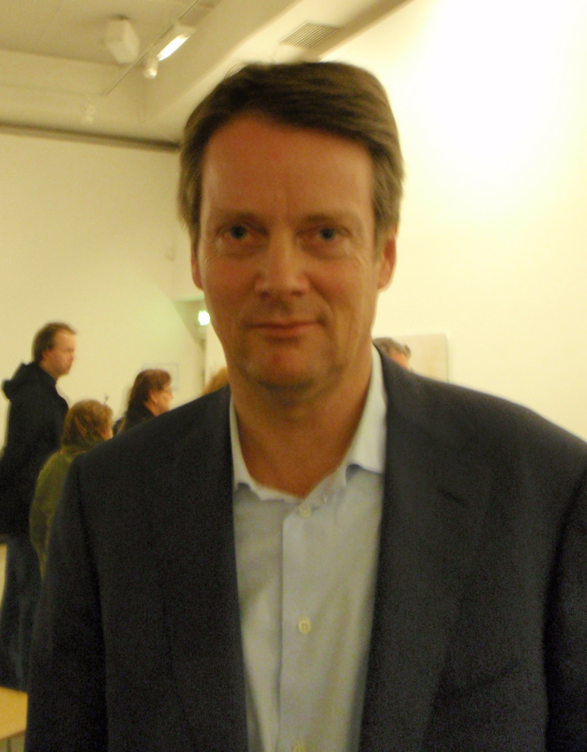 Audun Eckhoff is the new Director of Norways National Gallery of Art (march-april 2009)